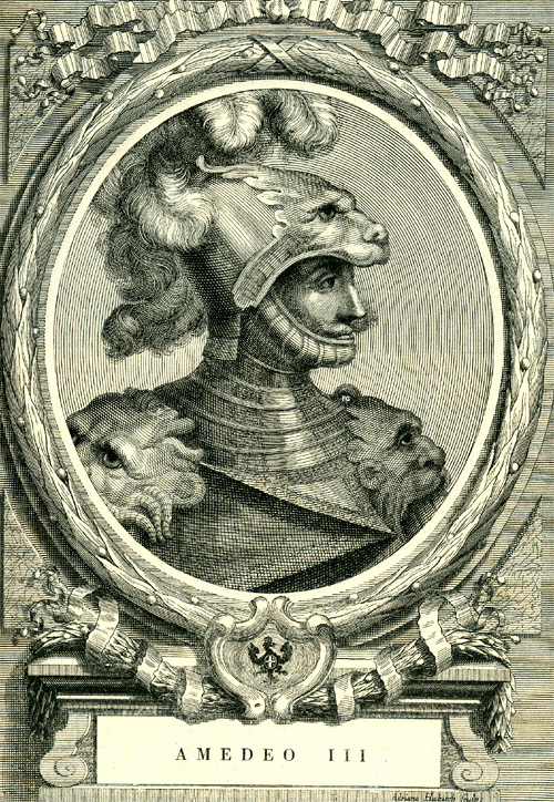 Amedeo III of Savoy (1095-1148)